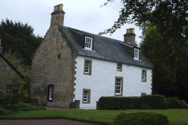 Old East Kilbride House "Brousterland" One of the oldest houses in the "new" town of East Kilbride